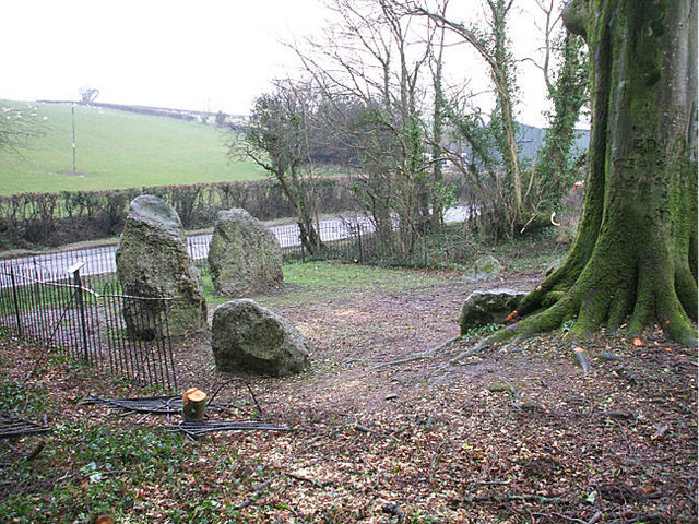 Winterbourne Abbas Nine Stones There has been considerable clearing work done at this site to preserve its integrity.